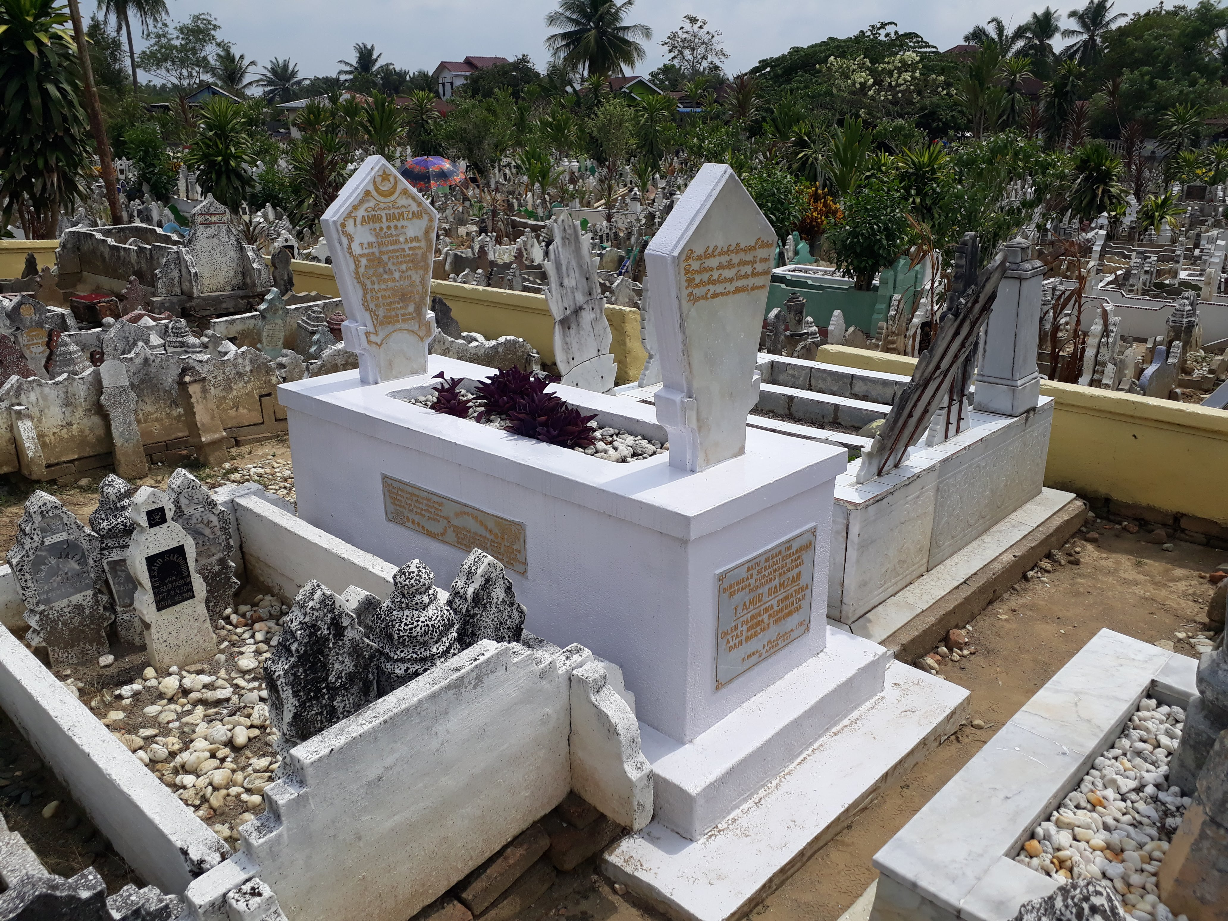 The grave of Indonesian poet and National Hero Teuku Amir Hamzah (1911-1946) at the Azizi Mosque, Tanjung Pura , North Sumatra, Indonesia